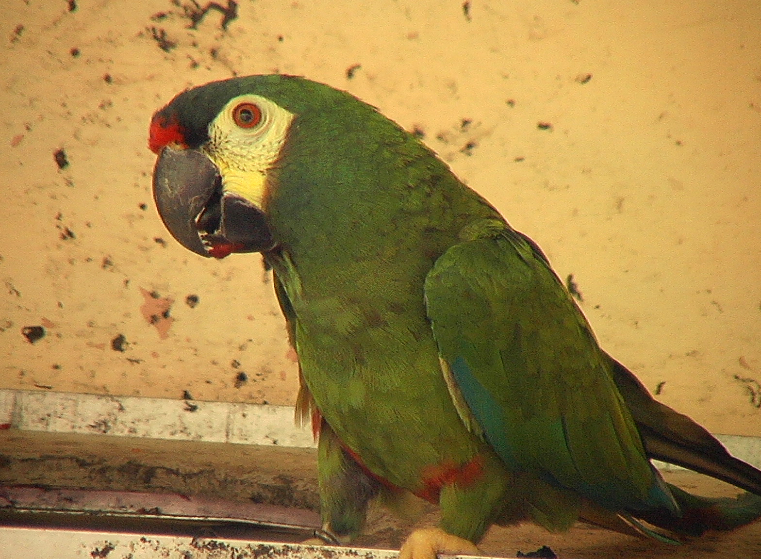 Illiger's Macaw also called Blue-winged Macaw (Primolius maracana) at Iguaçu Bird Park, Foz do Iguaçu, Brazil. Photographed on 23 April 2003